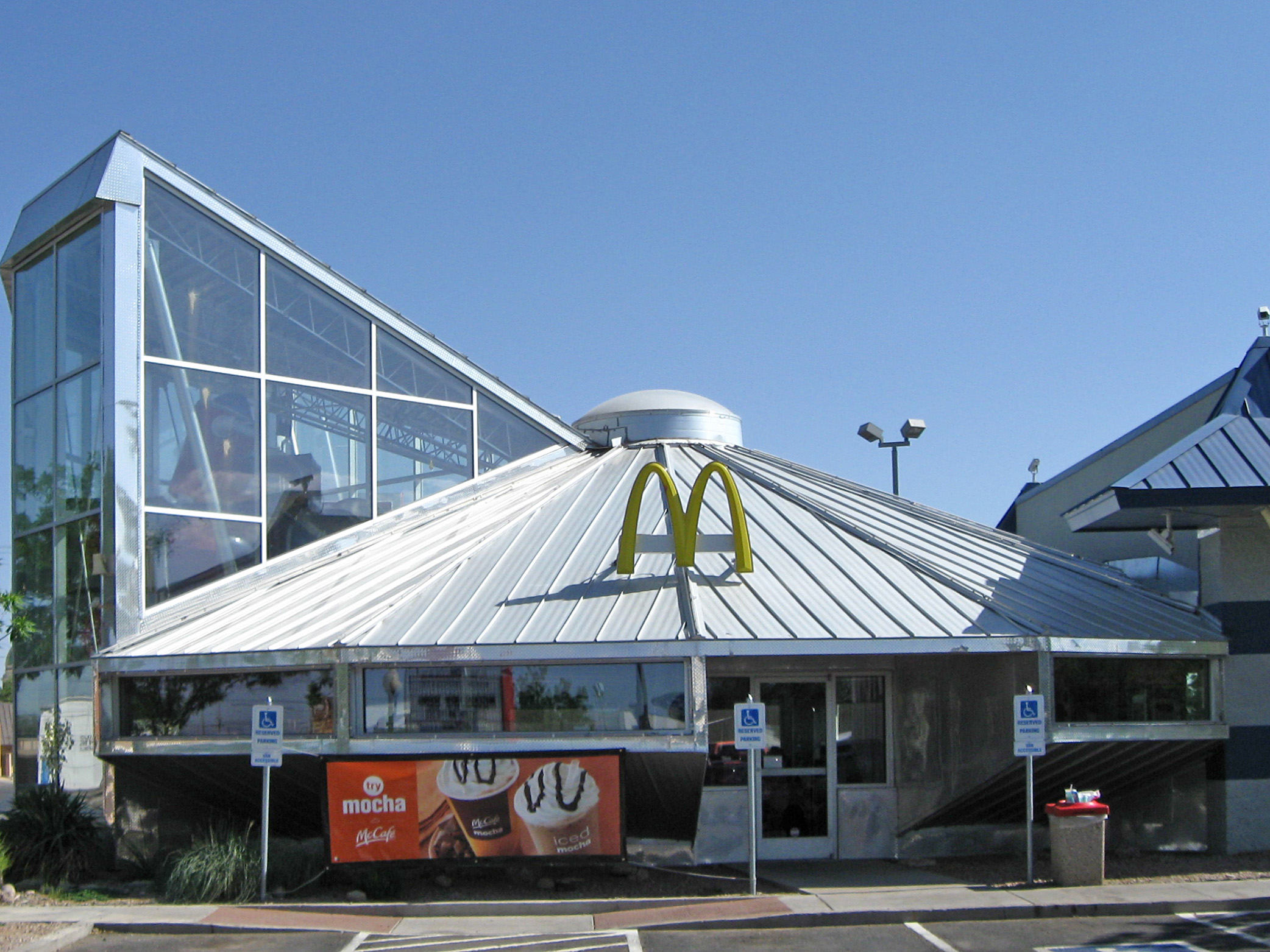 The McDonalds located at 720 N. Main in Roswell, New Mexico models its PlayPlace as a flying saucer.